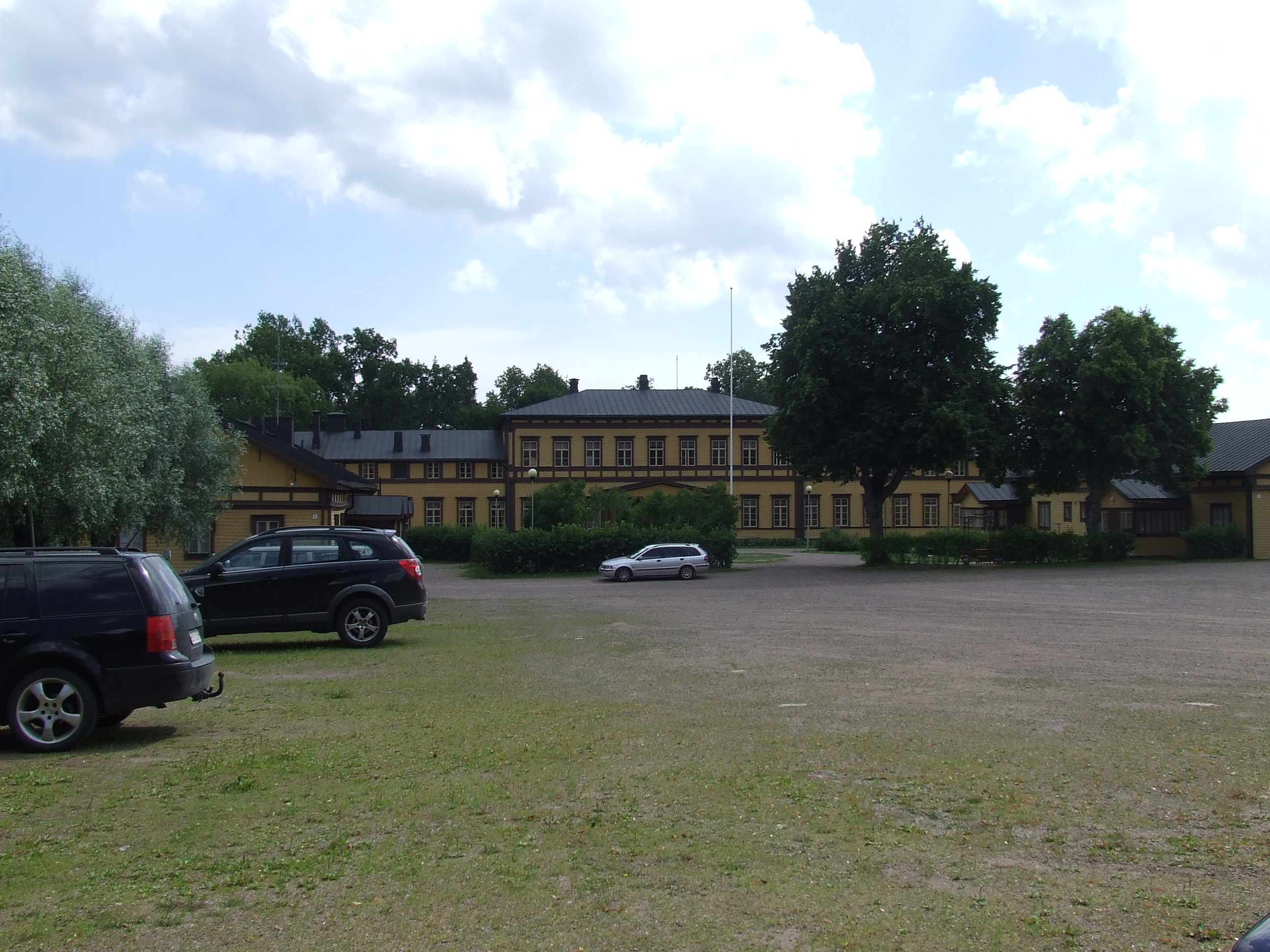 Sippola manor in Kouvola, Finland.